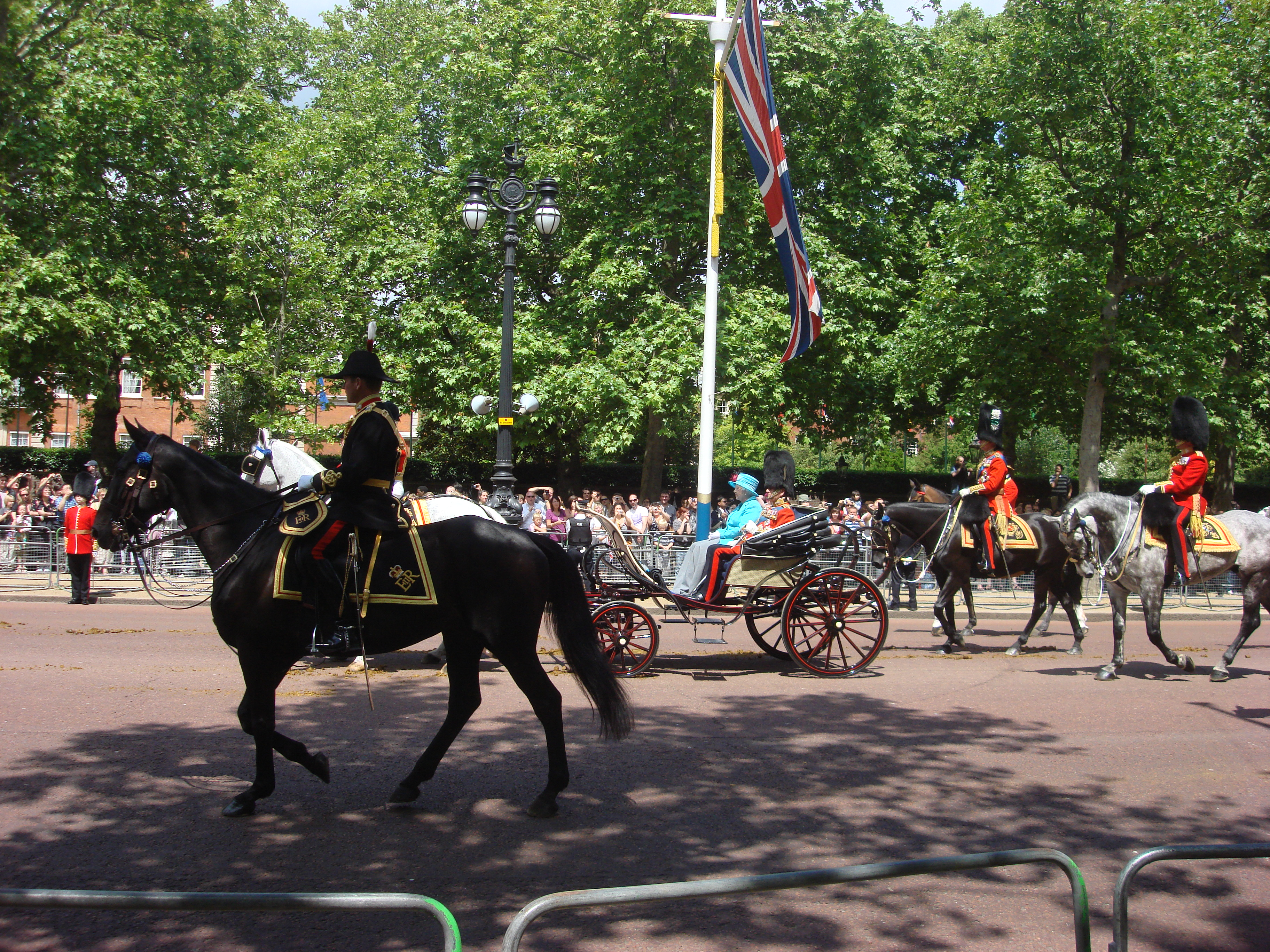 Trooping the Colour 2009